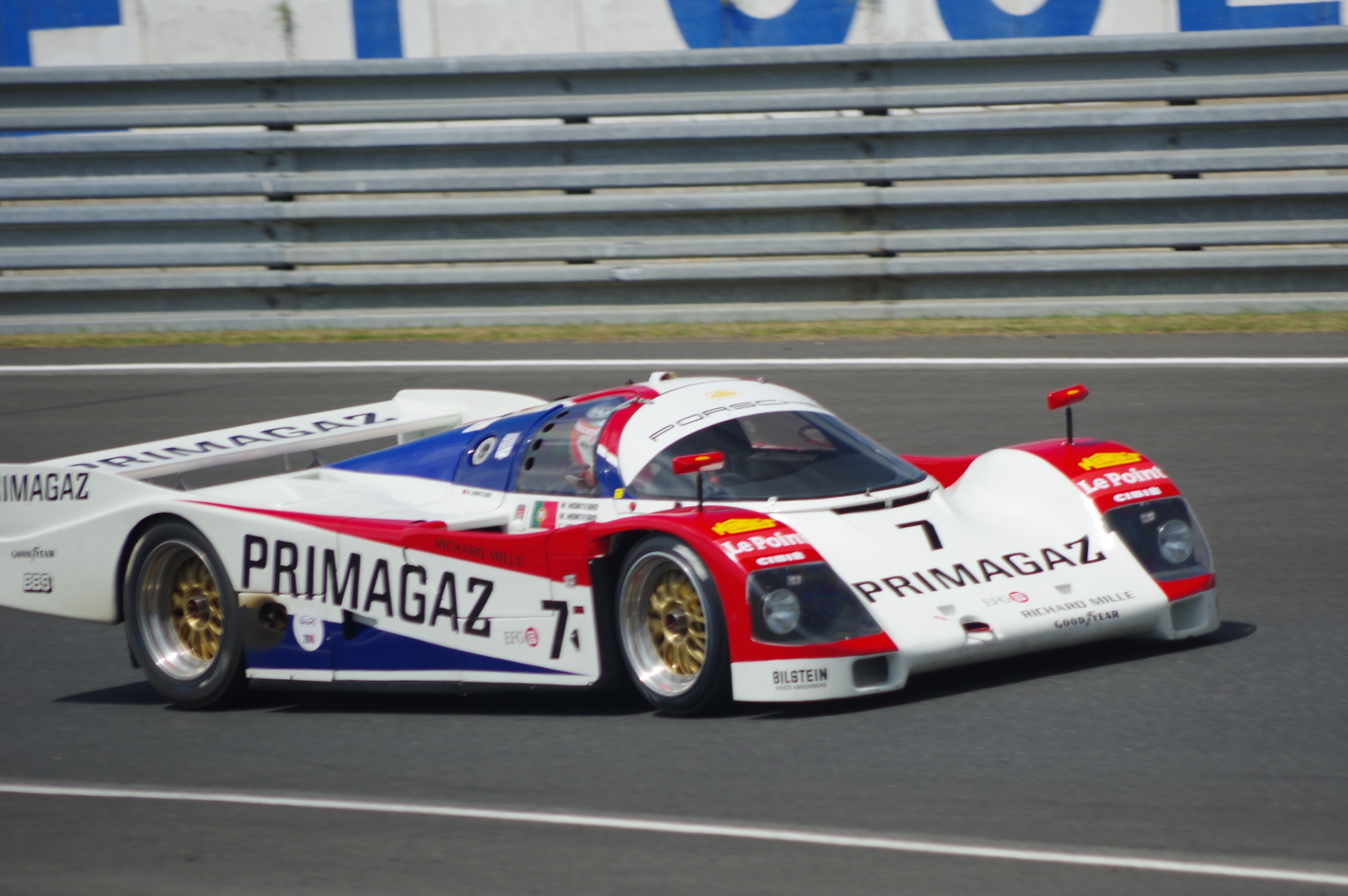 Obermaier Racing's Porsche 962C that has participate to the 1990 24 Hours of Le Mans driven by Jürgen Oppermann, Harald Grohs and Marc Duez